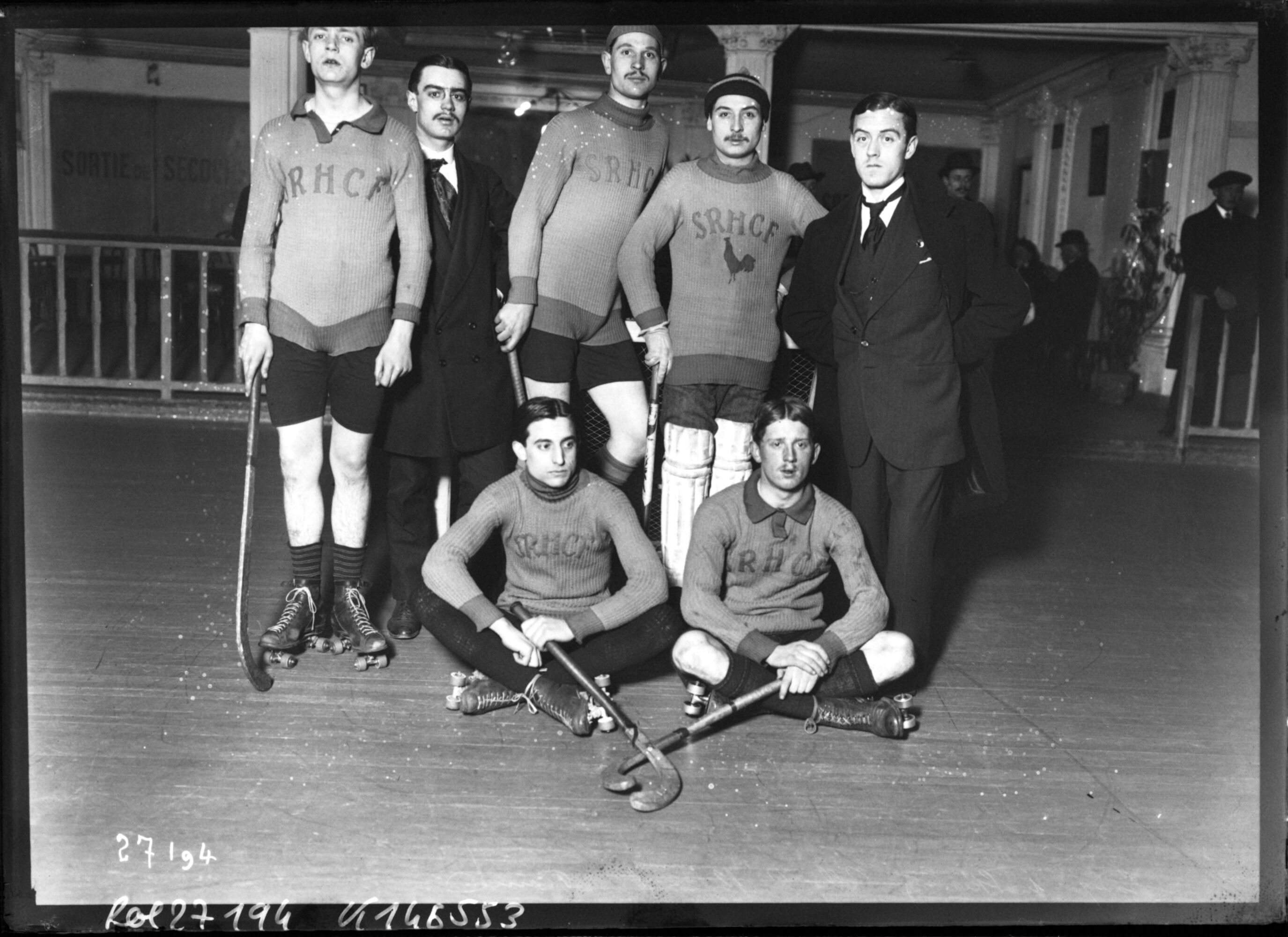 Photo du Skating Roller Hockey Club de France prise le 25 février 1913